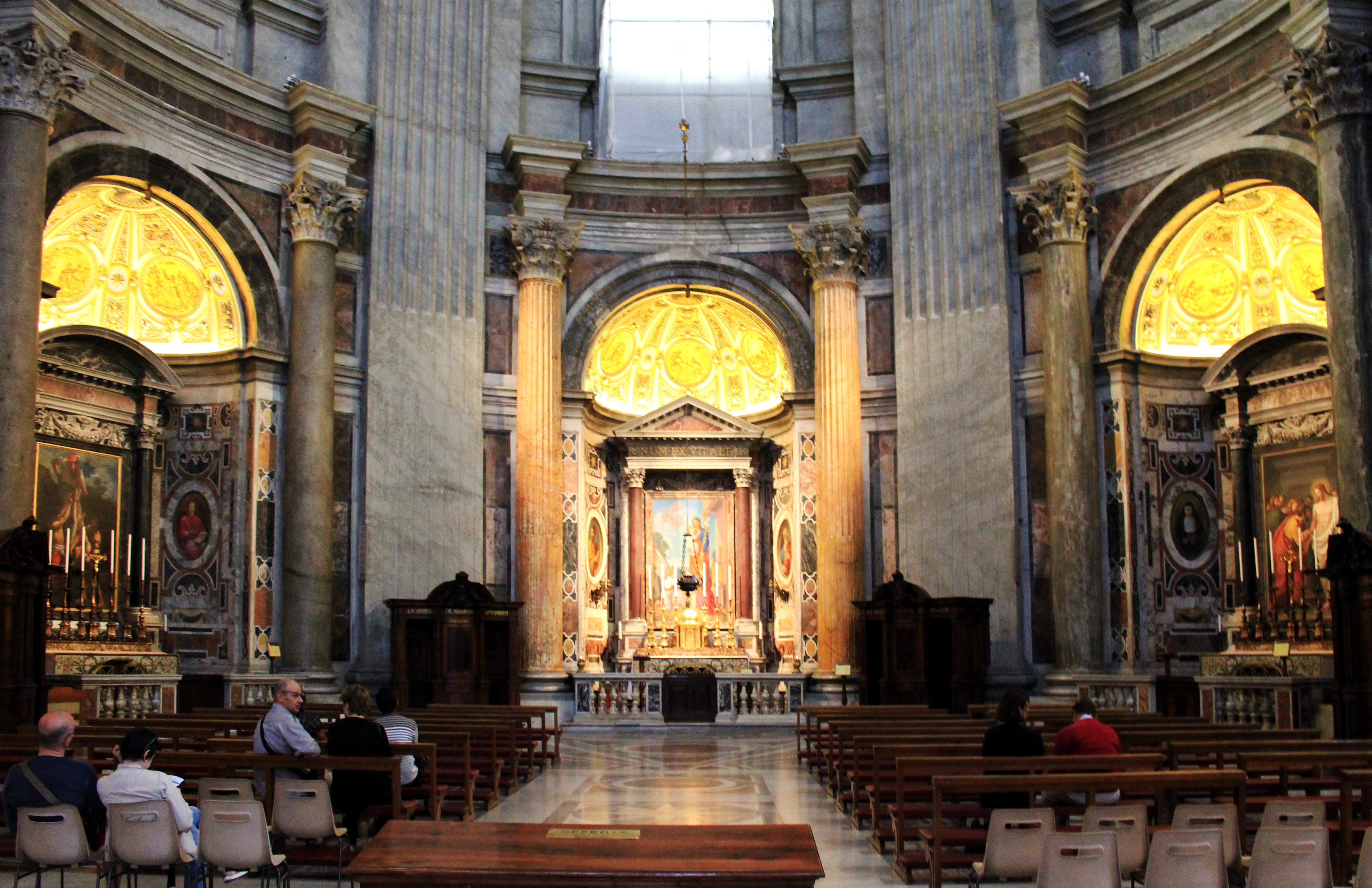 Interior of St. Peter's Basilica in Vatican City, Rome